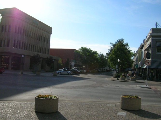 Main Avenue and Shoshone Street, Twin Falls, Idaho. Taken by Faustus37, 25 May 2006.